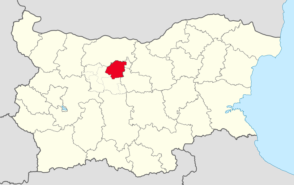 Location map of Lovech Municipality within Lovech Province, Bulgaria. Equirectangular projection, N/S stretching 130 %. Geographic limits of the map: N: 44.4° N S: 41.1° N W: 22.1° E E: 28.9° E